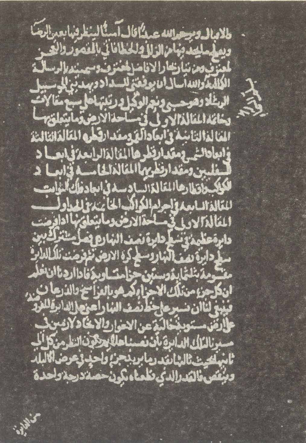 this is considered in public domain now because its copyright condition has been already expired in Iran. according to the "National law in support of authors, composers and artists" ratified in 01/01/1970 and published in 01/02/1970, the license for photographs and films after their issuing date is valid for 30 years.